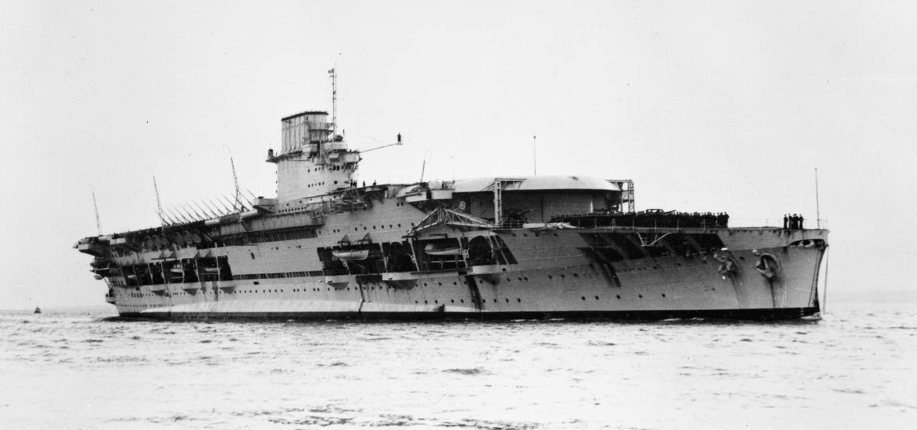 The Courageous Class fleet aircraft carrier HMS COURAGEOUS.